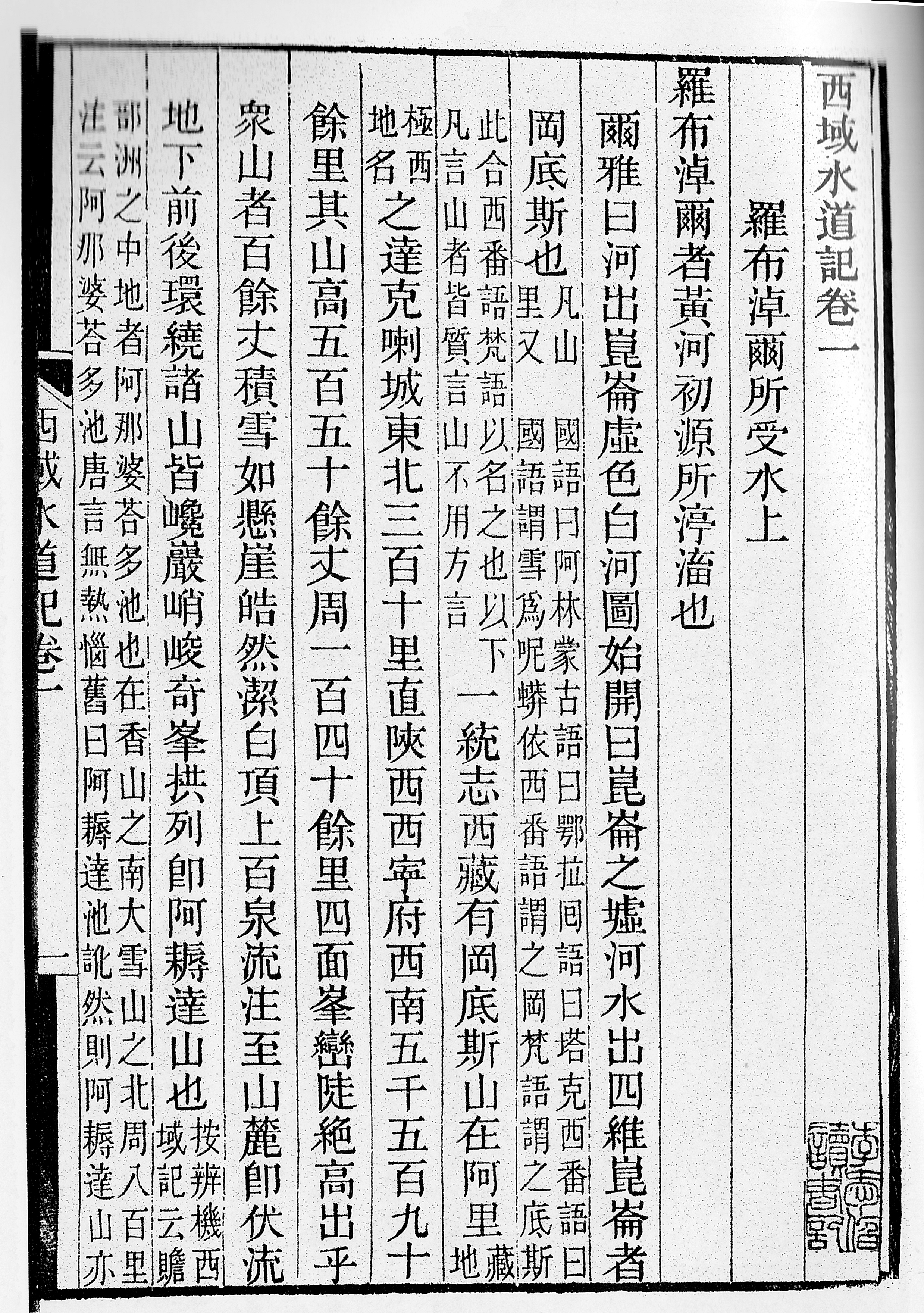 A page from a Qing dynasty printed edition of Waterways of Western Regions